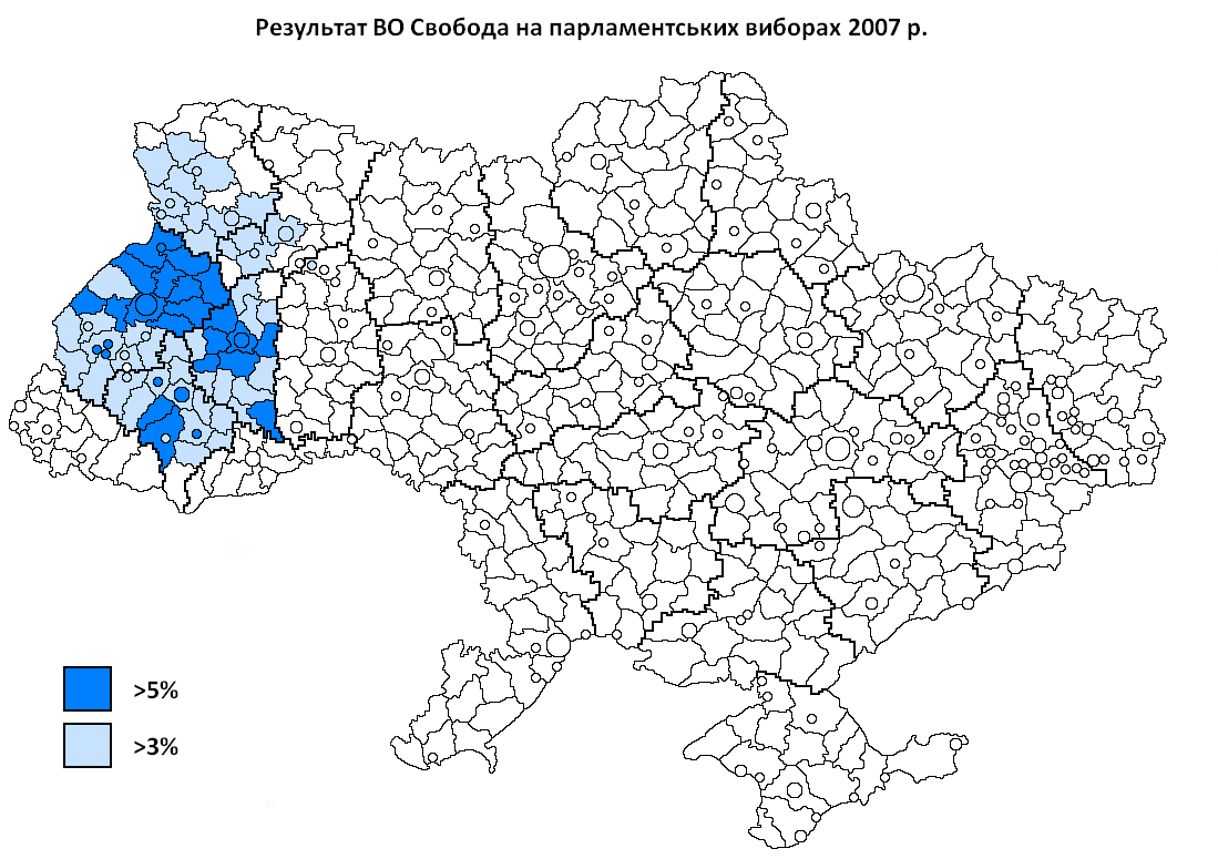 Raions and cities with over 3% and 5% votes for Svoboda party on Ukrainian parliamentary elections 2007